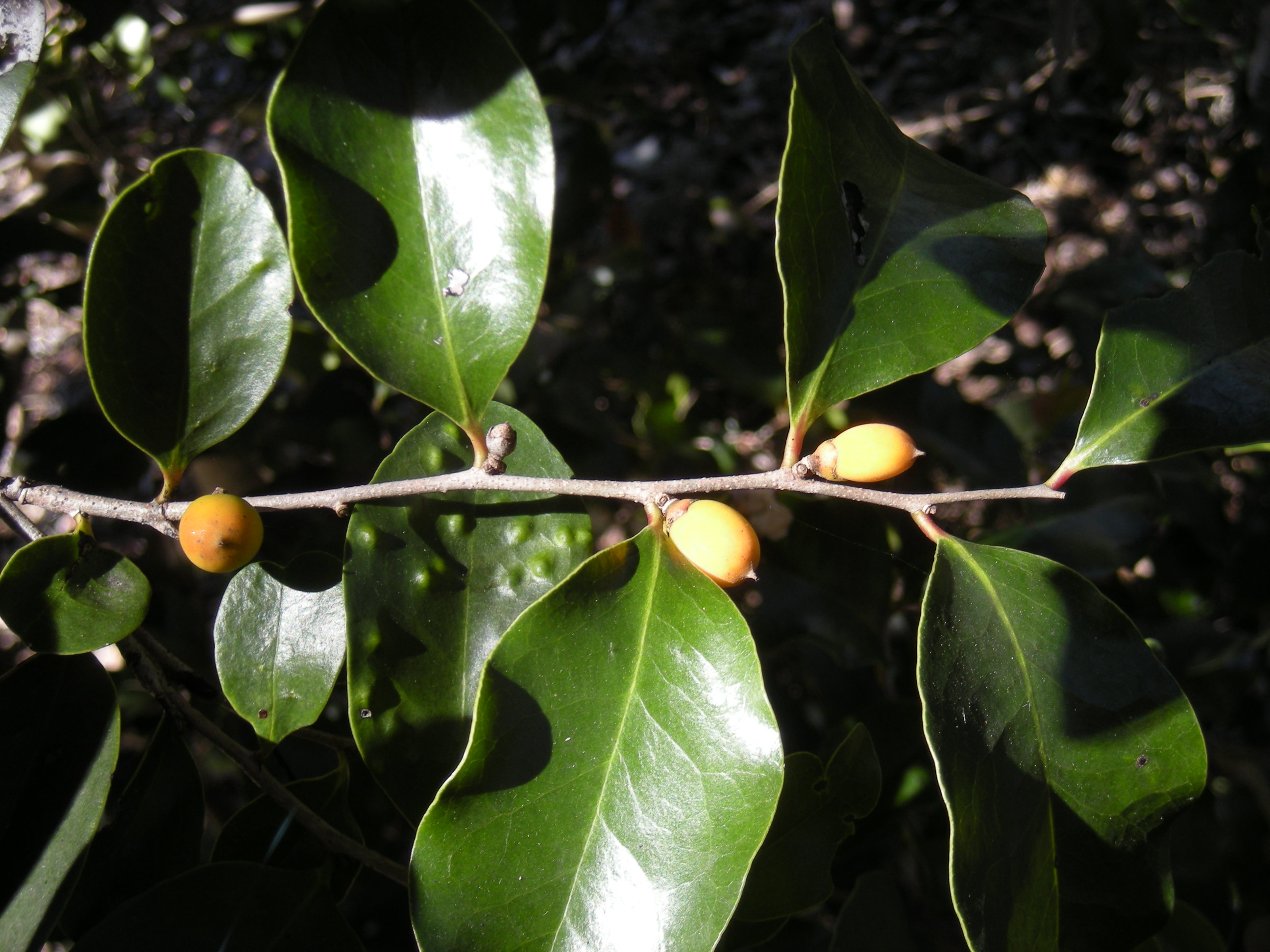 Diospyros geminata fruit and foliage, Mount Archer National Park, Rockhampton